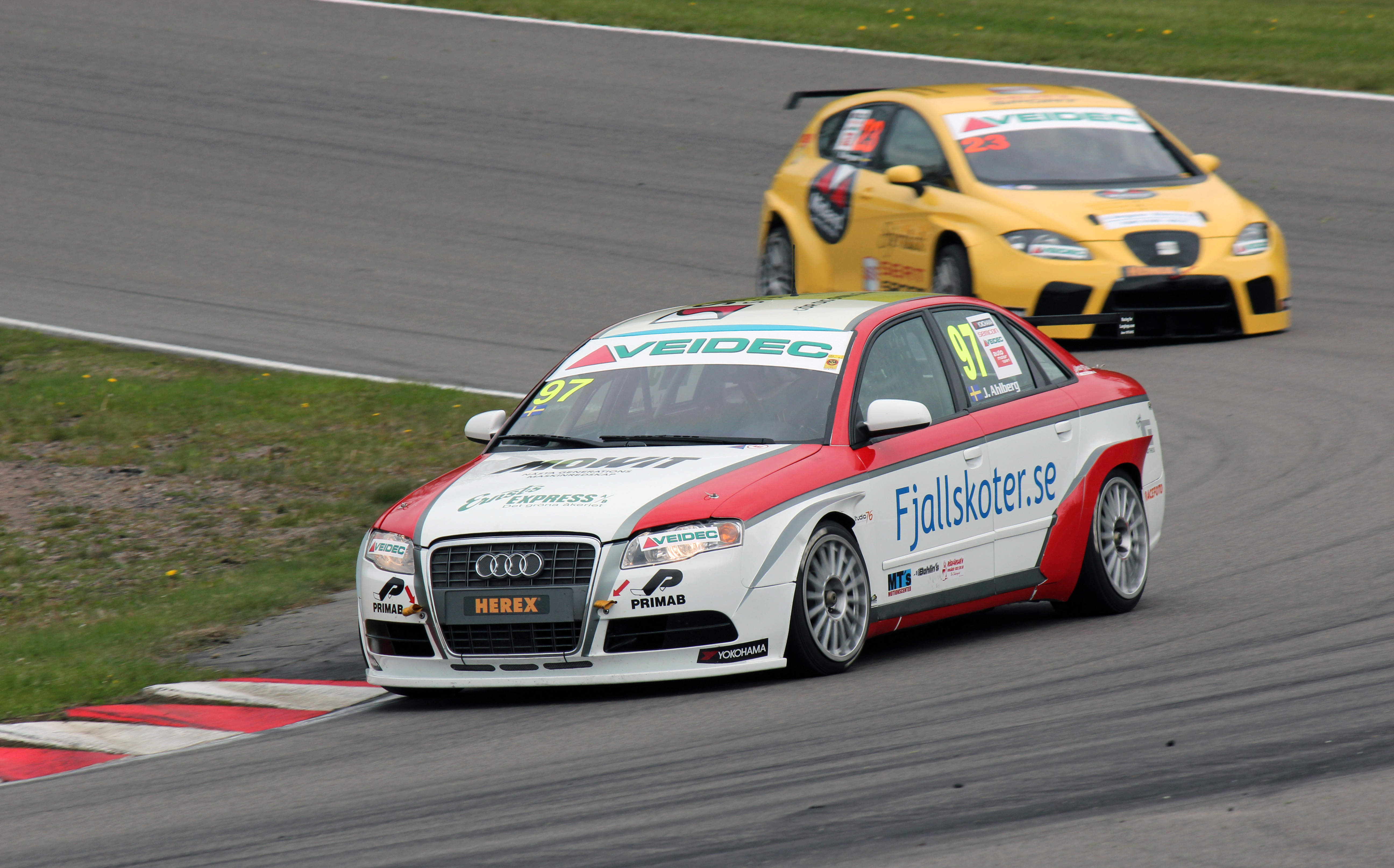 Joakim Ahlberg in his Audi A4 for BMS Event at Ring Knutstorp in the 2012 Scandinavian Touring Car Championship.